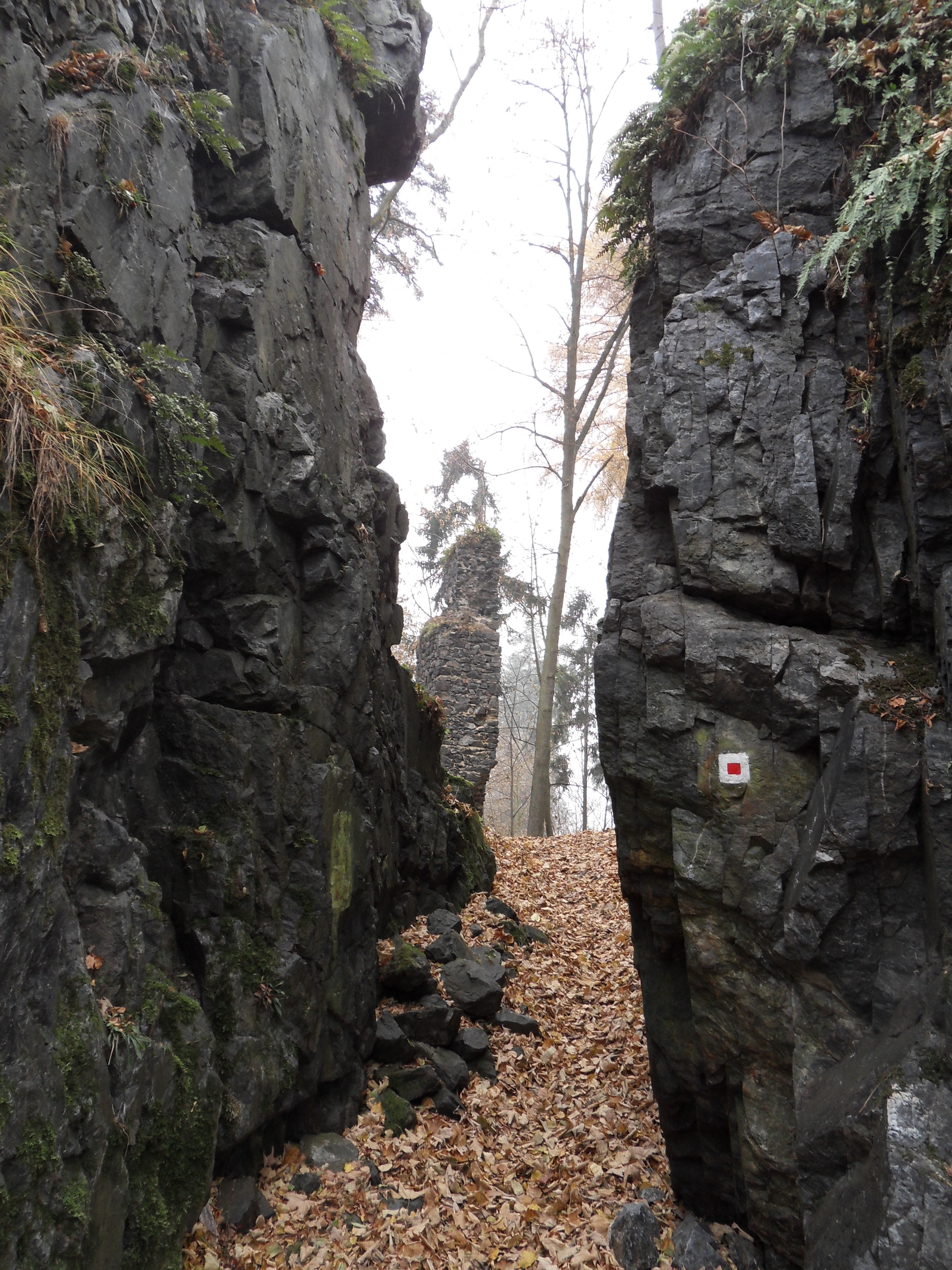 Castle Skála (Ruins of castle in Plzeň-South District ). The "Gate" to the southern part of the castle